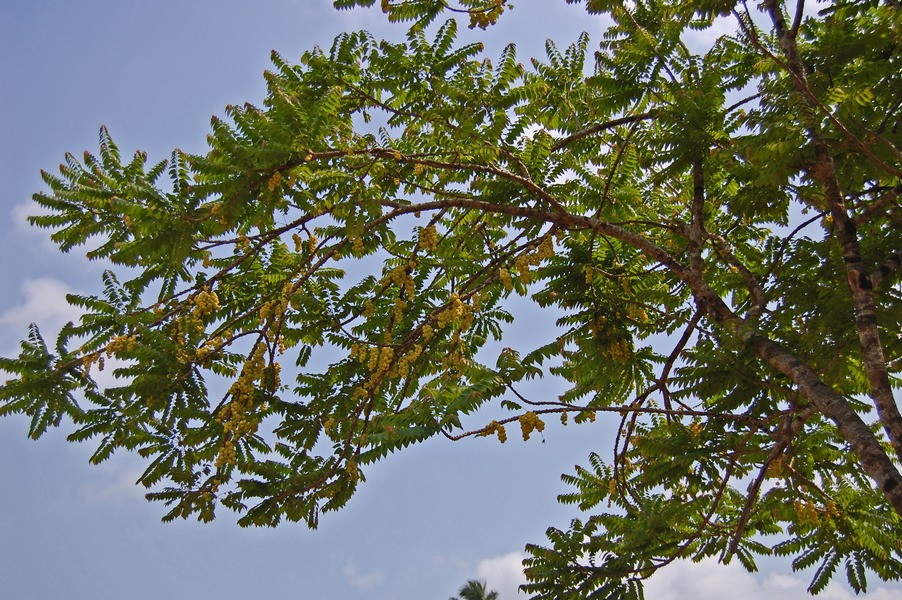 Phyllanthus acidus tree, near Borobudur, Central Java, Indonesia